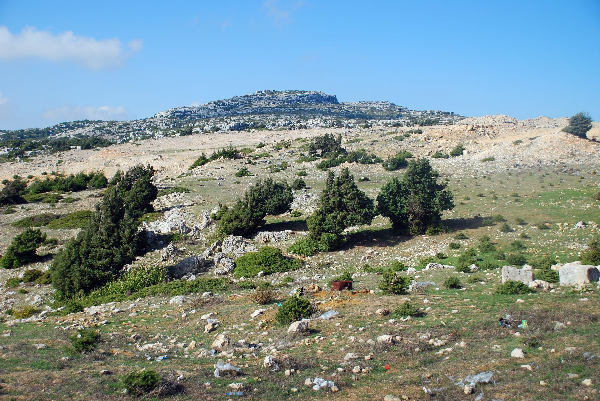 Peak near Slinfah, Jebel Aansariye, Syria